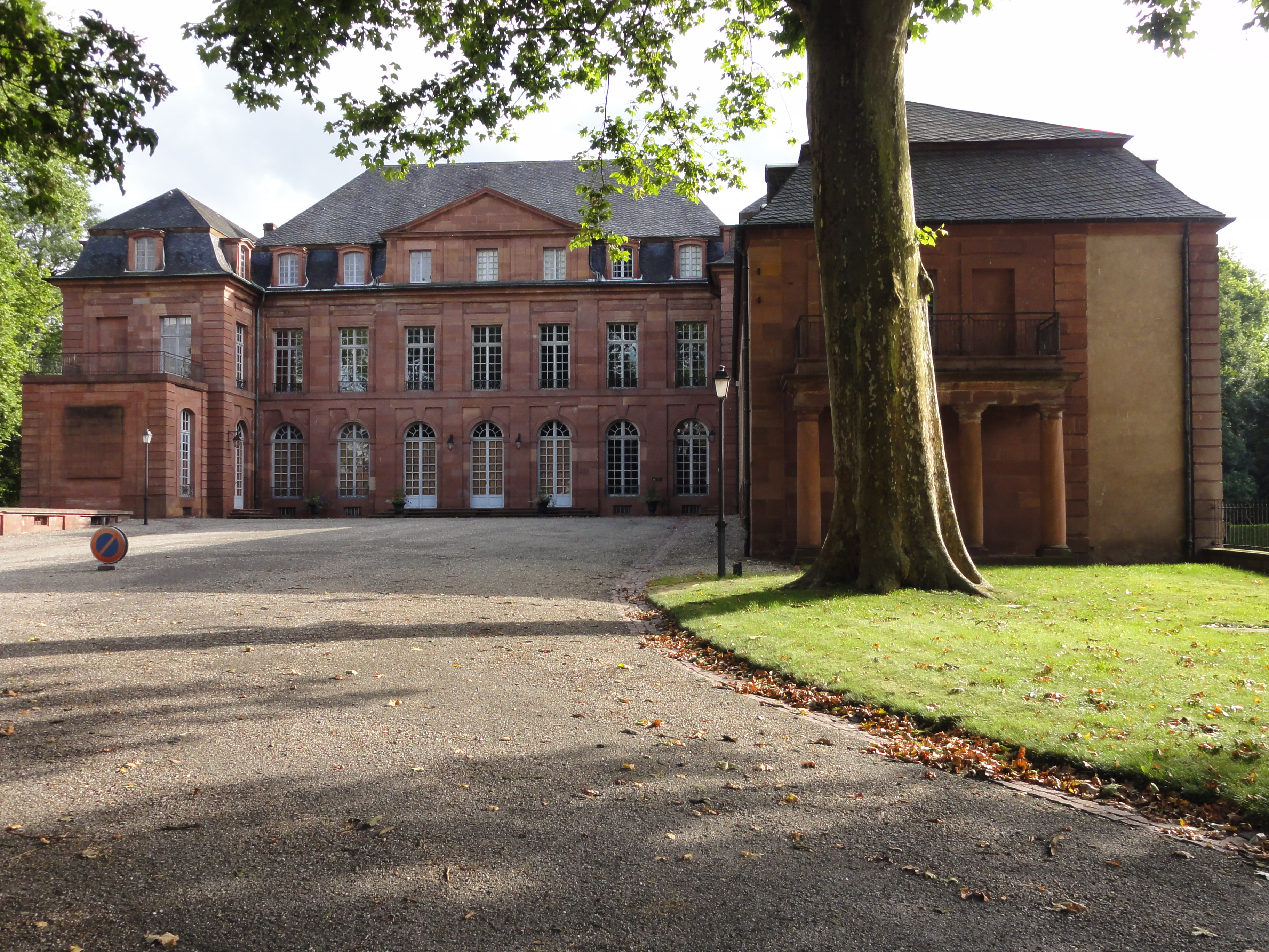 Alsace, Bas-Rhin, Reichshoffen, Château De Dietrich (1771): It is indexed in the Base Mérimée, a database of architectural heritage maintained by the French Ministry of Culture, under the references PA00084897 and IA00123282 .